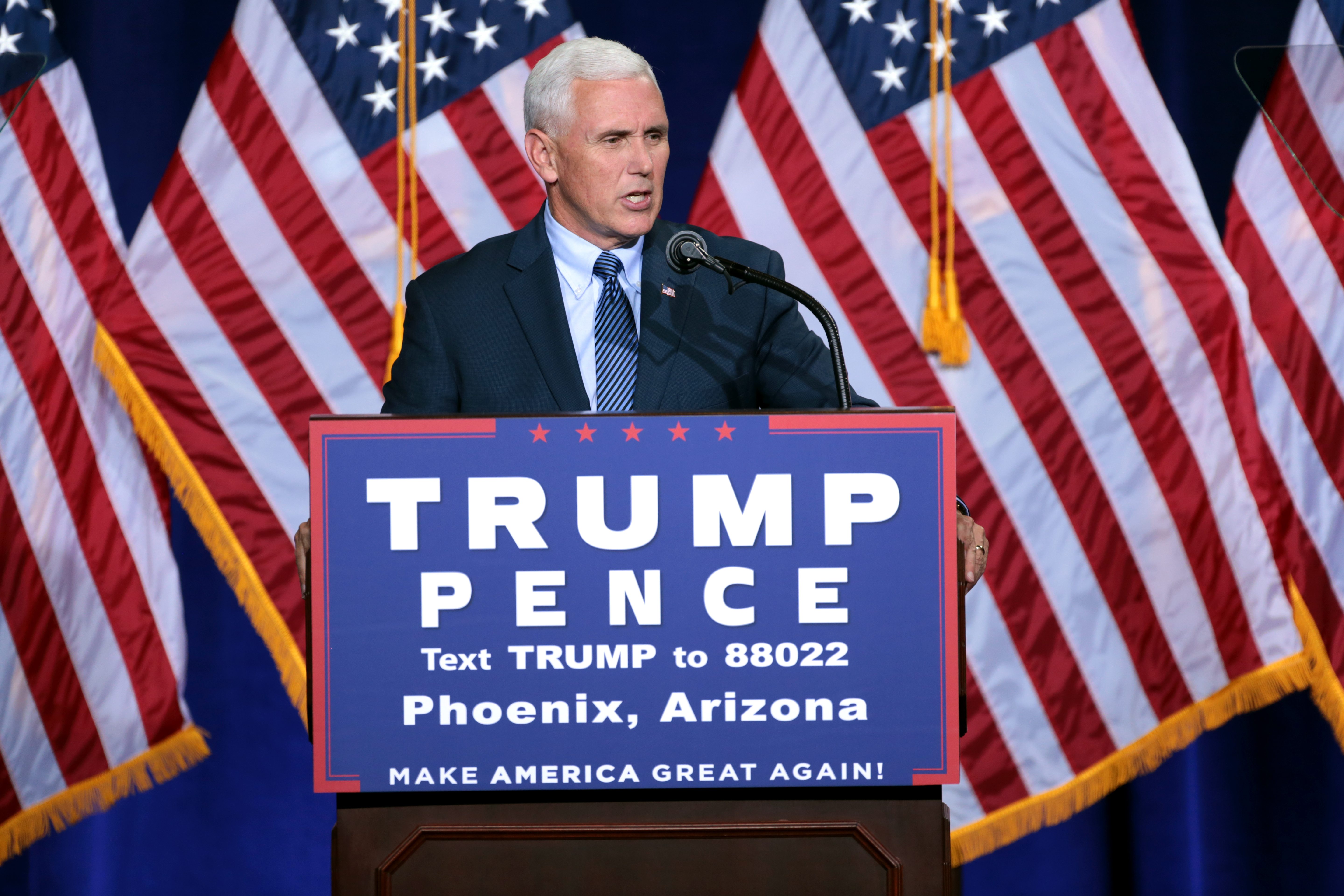 Governor Mike Pence of Indiana speaking to supporters at an immigration policy speech hosted by Donald Trump at the Phoenix Convention Center in Phoenix, Arizona.